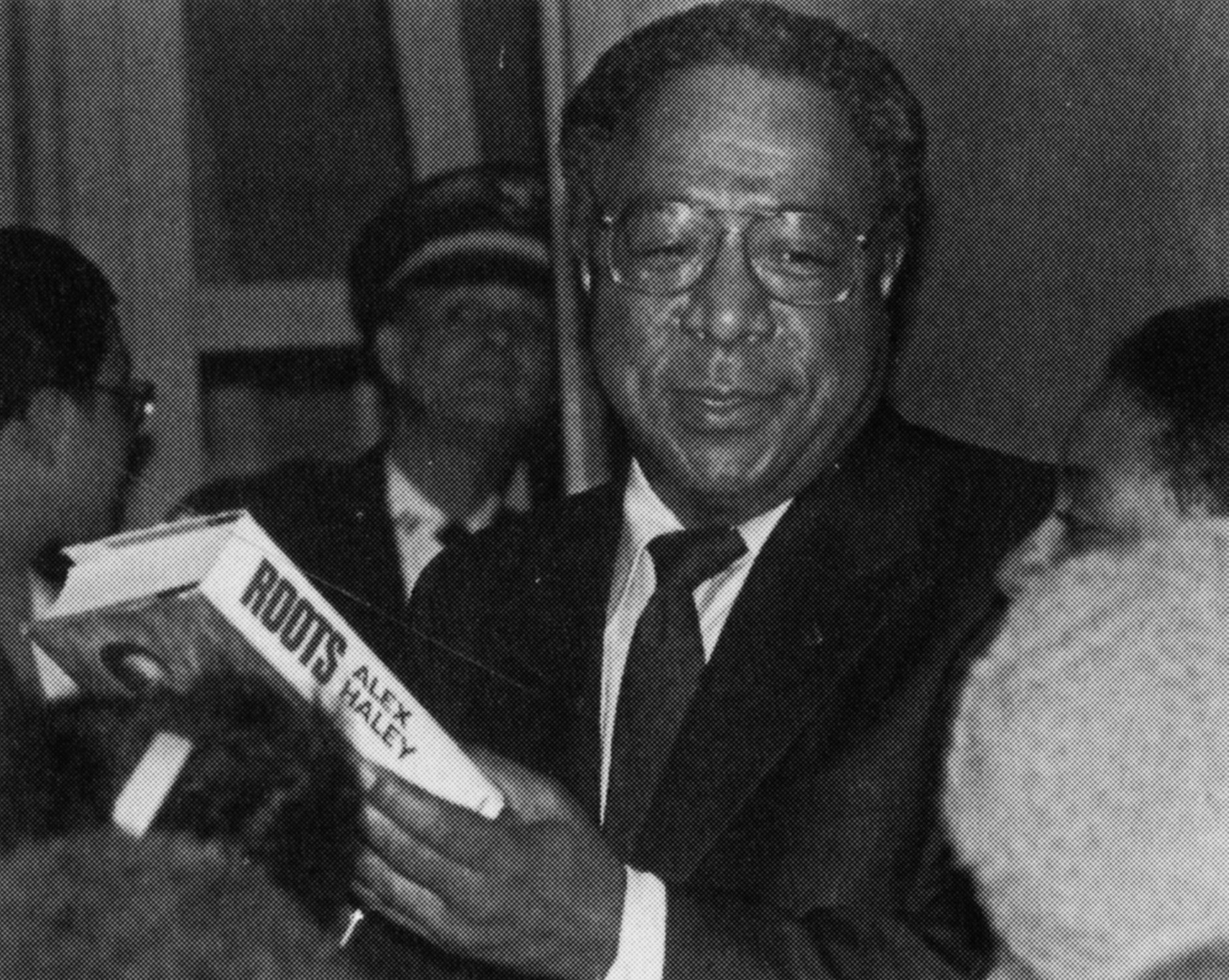 Alex Haley speaker at University of Texas at Arlington's Texas Hall.